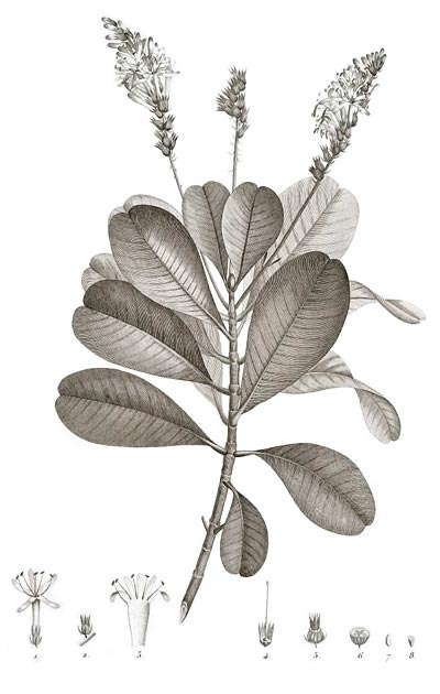 Illustration of Retiniphyllum secundiflorum 25 (also known as Nonatelia secundiflora (Bonpl.) Spreng., )